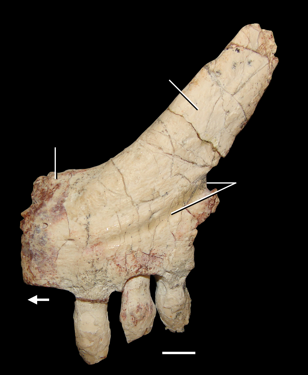 Mirrored right premaxilla of Azendohsaurus madagaskarensis with implanted teeth in lateral view, specimen UA 8-7-98-284. Scale bar equals 5 mm, arrow indicates anterior direction. Modified from Ezcurra (2016).